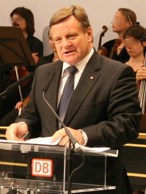 Hartmut Mehdorn, Deutsche Bahn chairman, at the inauguration ceremony at the modernized Dresden main railway station